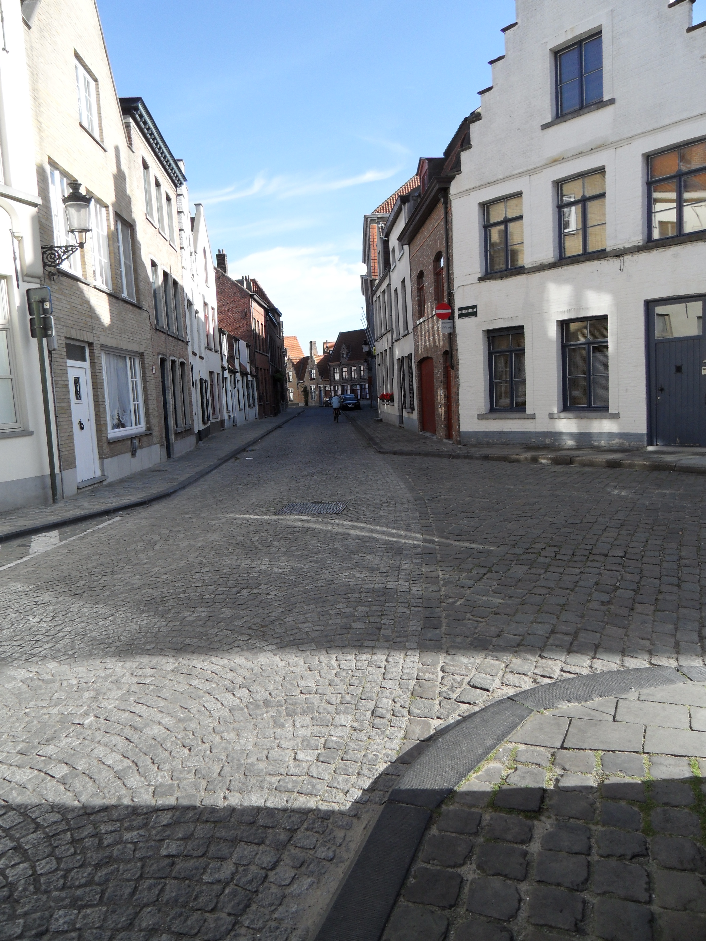 Sint-Clarastraat in Bruges